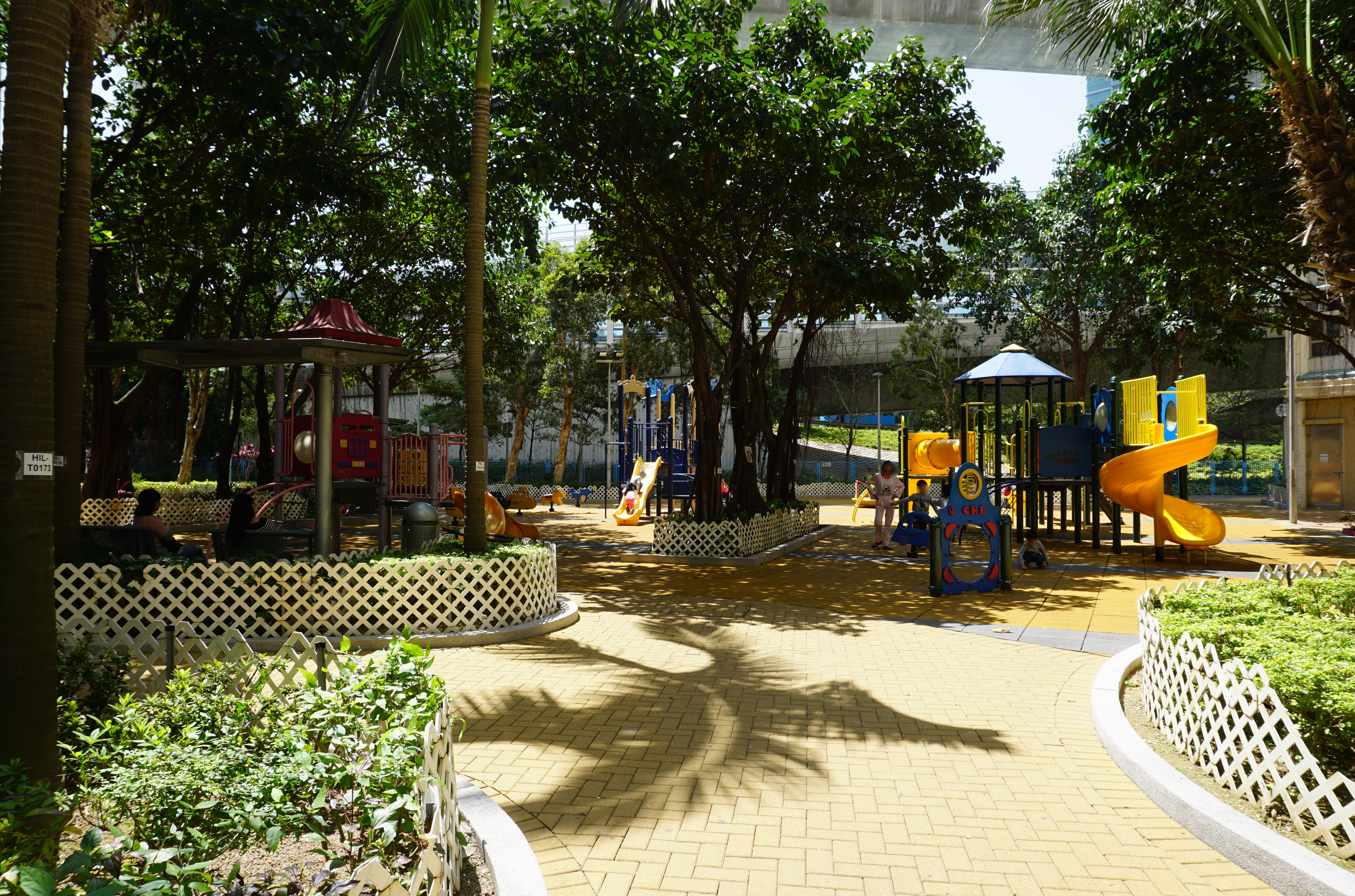 Hoi Lai Estate in Lai Chi Kok, Hong Kong.